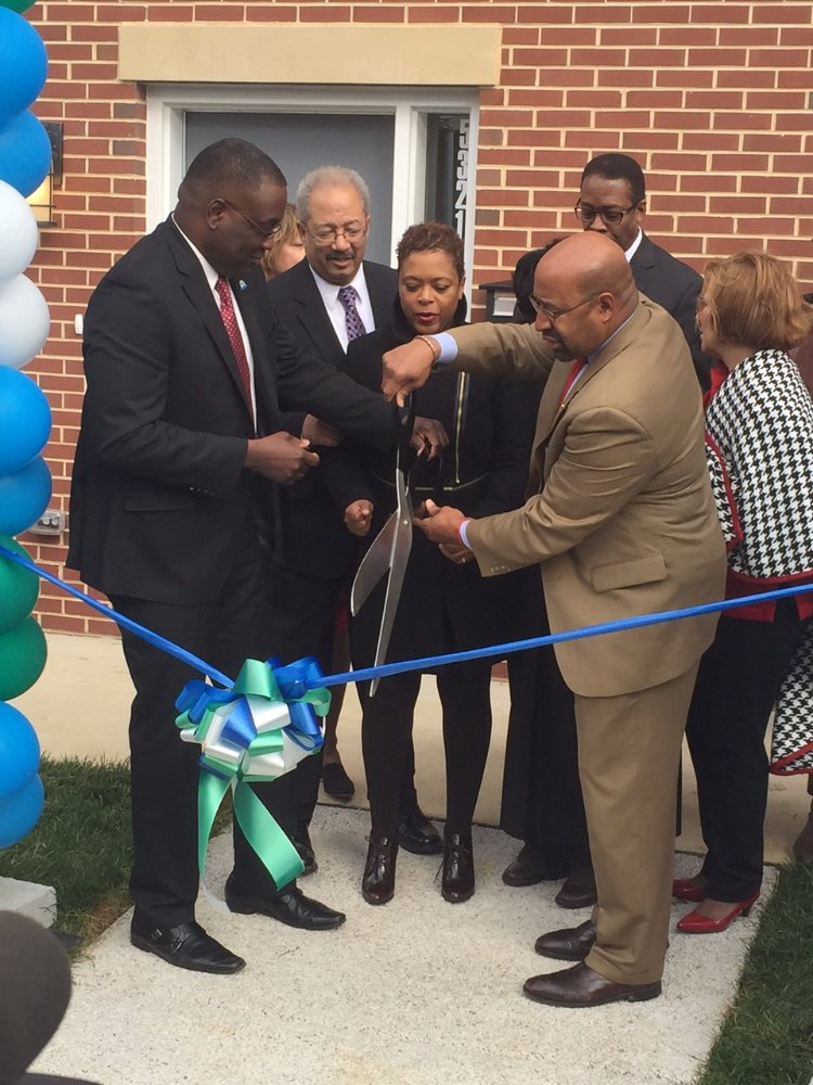 Mayor Michael Nutter, City Council President Darrell L. Clarke, City Councilwoman Cindy Bass, PHA President/CEO Kelvin Jeremiah, residents of the nine (9) new units, and other dignitaries joined together to cut the ribbon on Tuesday December 15th, 2015.